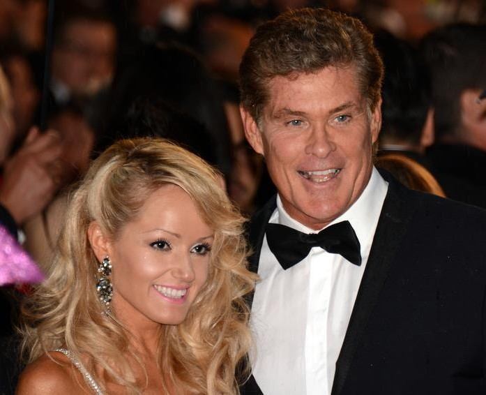 David Hasselhoff at the Cannes Film Festival